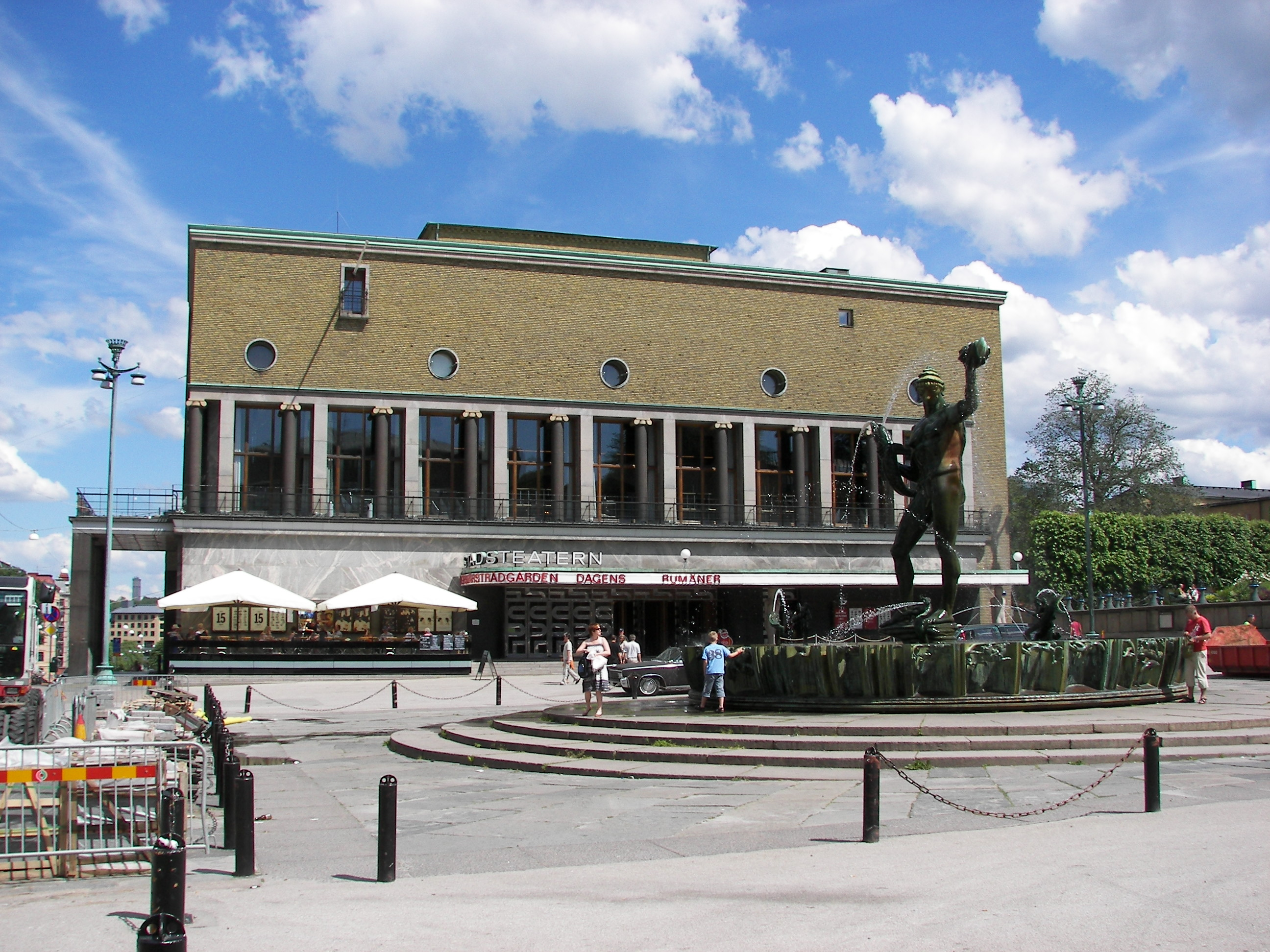 The theater in Göteborg, Sweden.